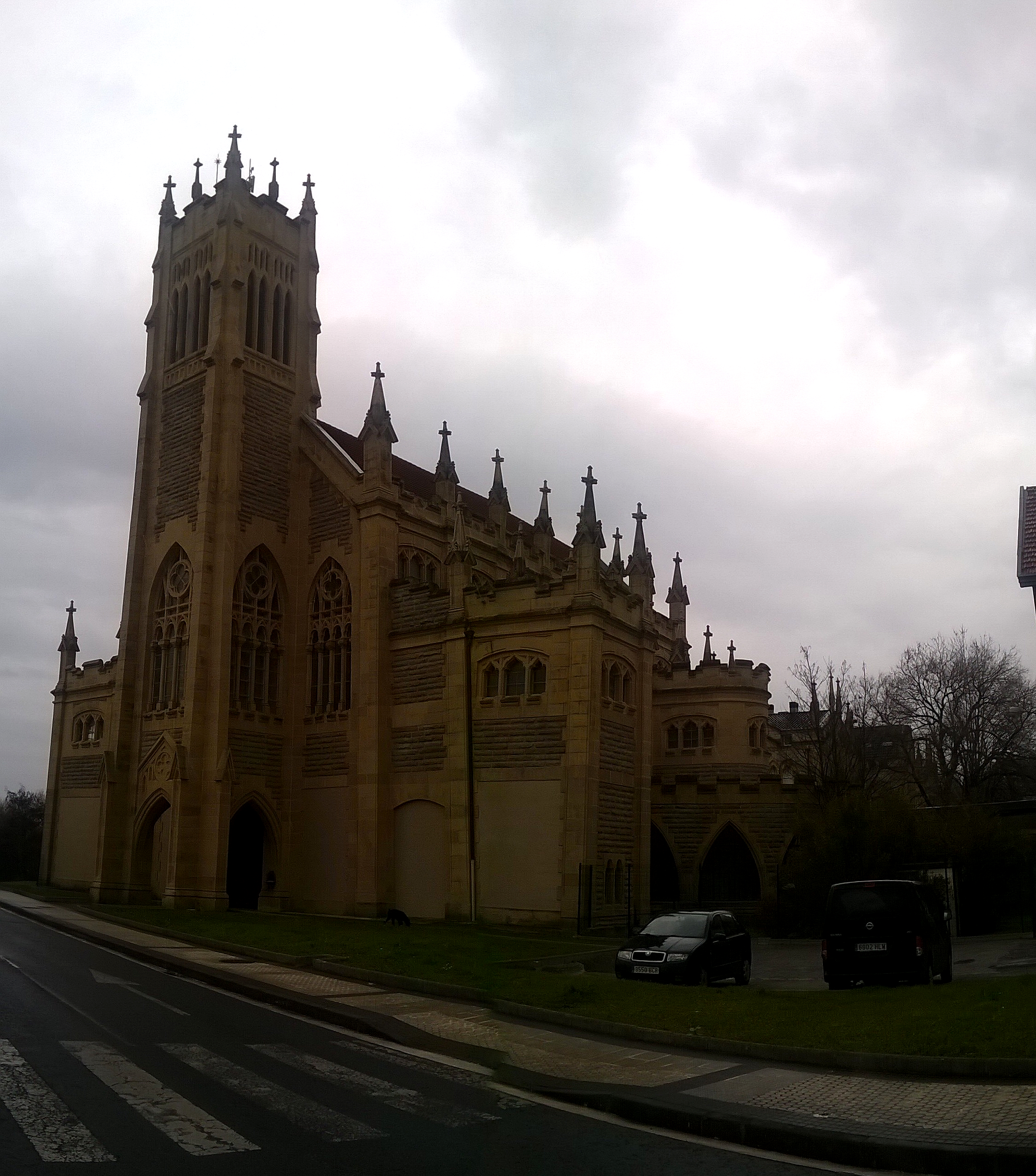 Church of Zorroaga. Donostia, Gipuzkoa, Basque Country.